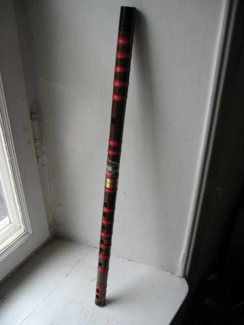 own photo, 2006 "di", aka "dizi", aka "Chinese bamboo flute", aka "Chinese membrane flute"Bamboo in use